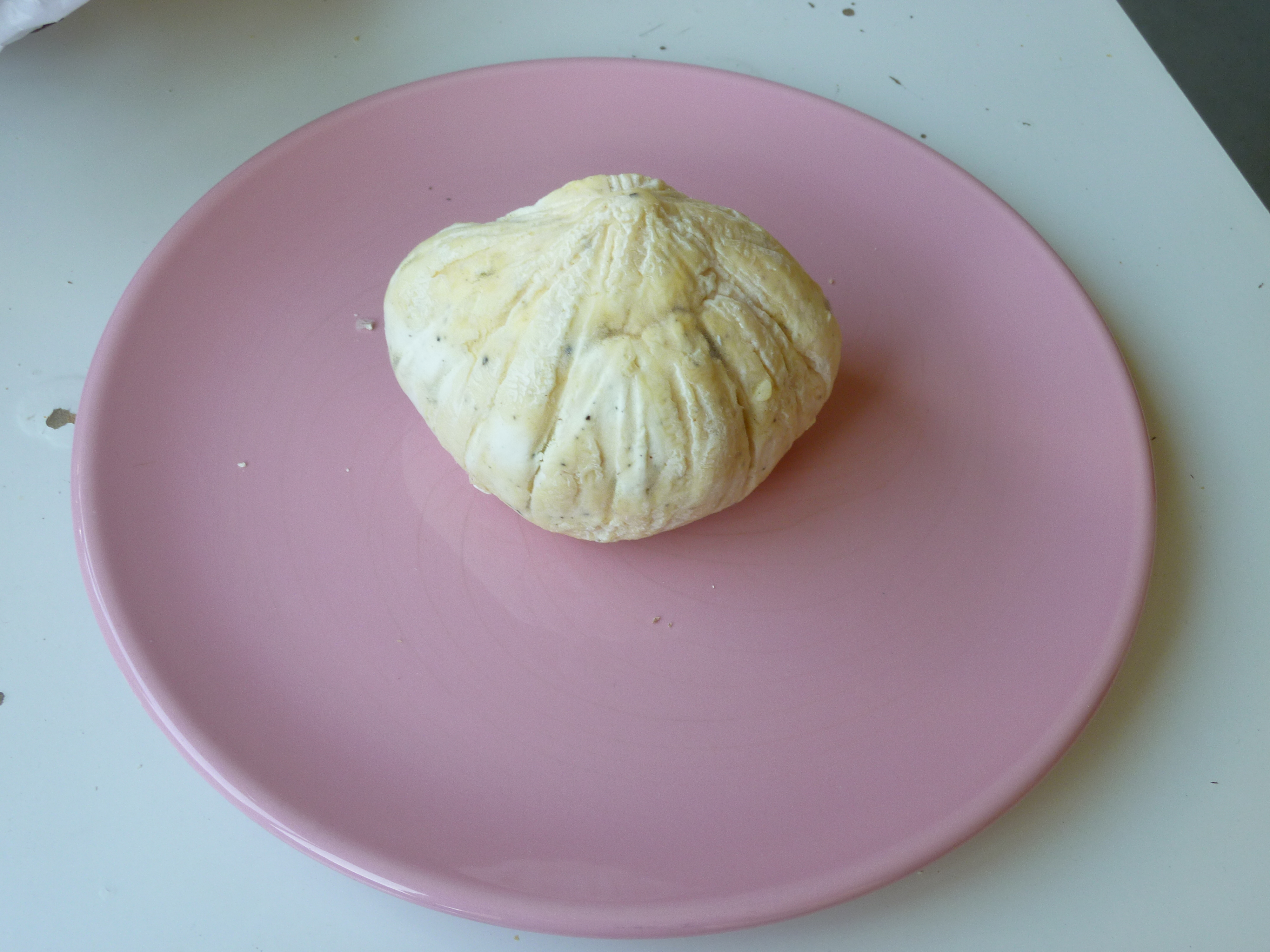 Gaperon, French cheese from Auvergne.